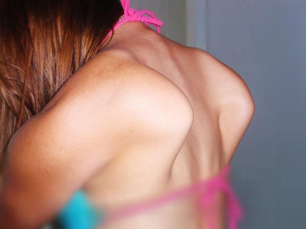 Double jointed shoulder blades. Or also known as "Bat wings".